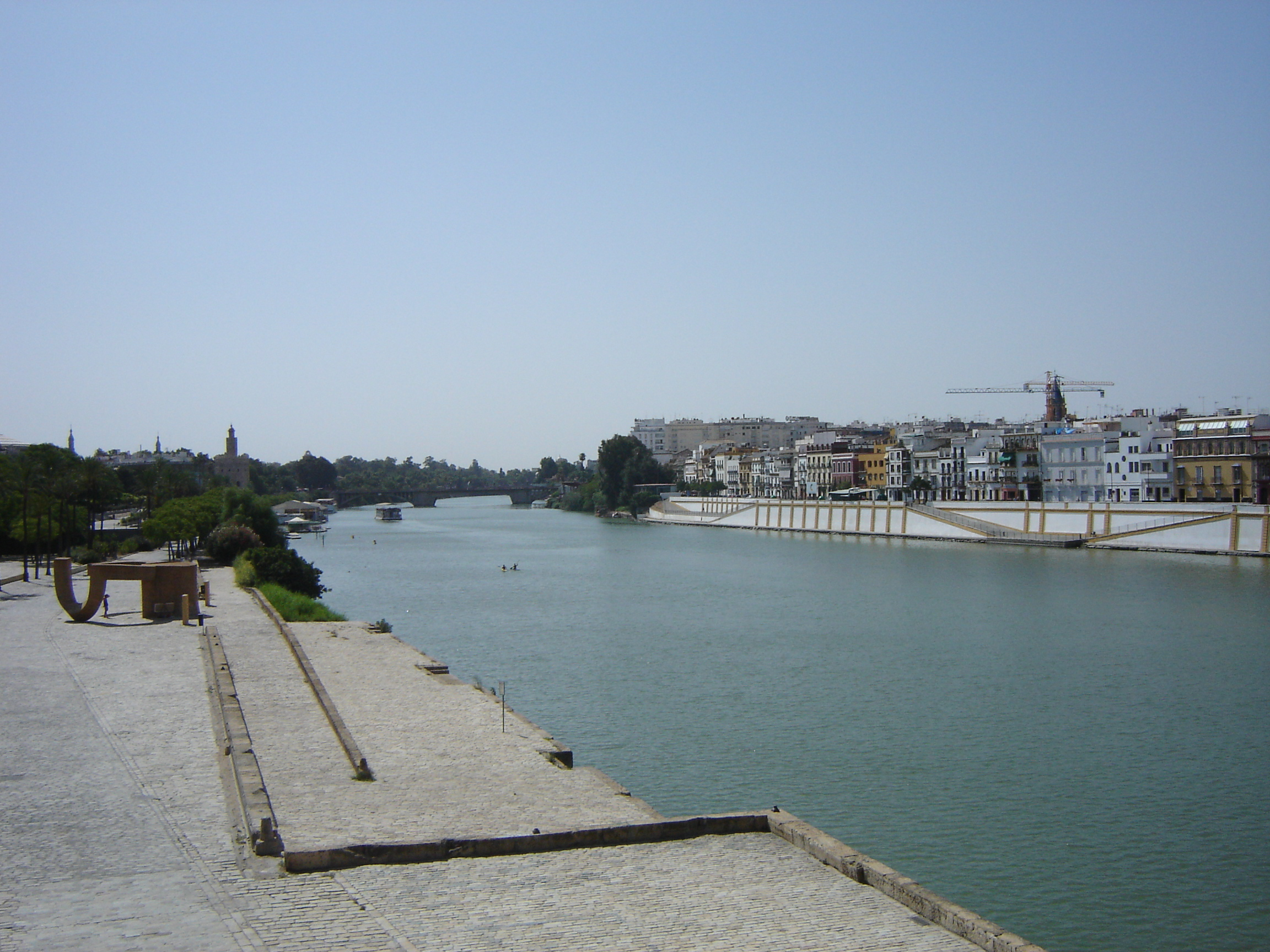 Photographer: Patrick Morin Place: Sevilla (Spain) Description: Guadalquivir river Date: August 4th 2005